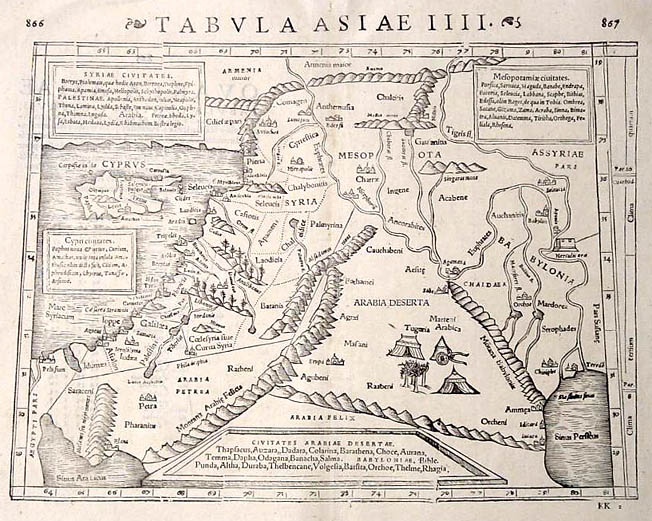 TABVLA ASIAE IV - Middle East (Ptolemy) Issued in Basle in the year 1540. Original size 25.0 x 34.4 (hxw cms) Technique used: Woodcut